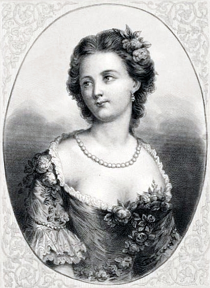 French/Belgian dancer Marie-Anne de Camargo (1710-1770)